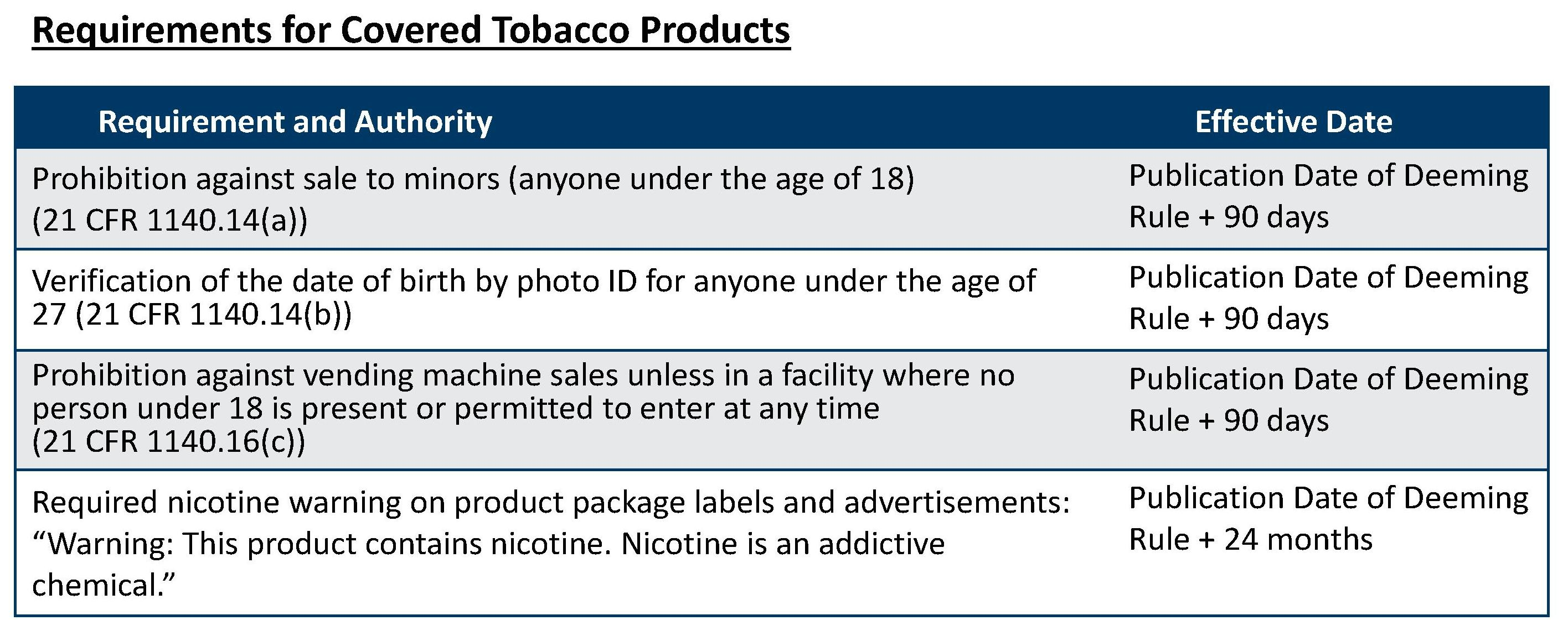 FDA CTP PowerPoint Presentation Vape Shop Webinar